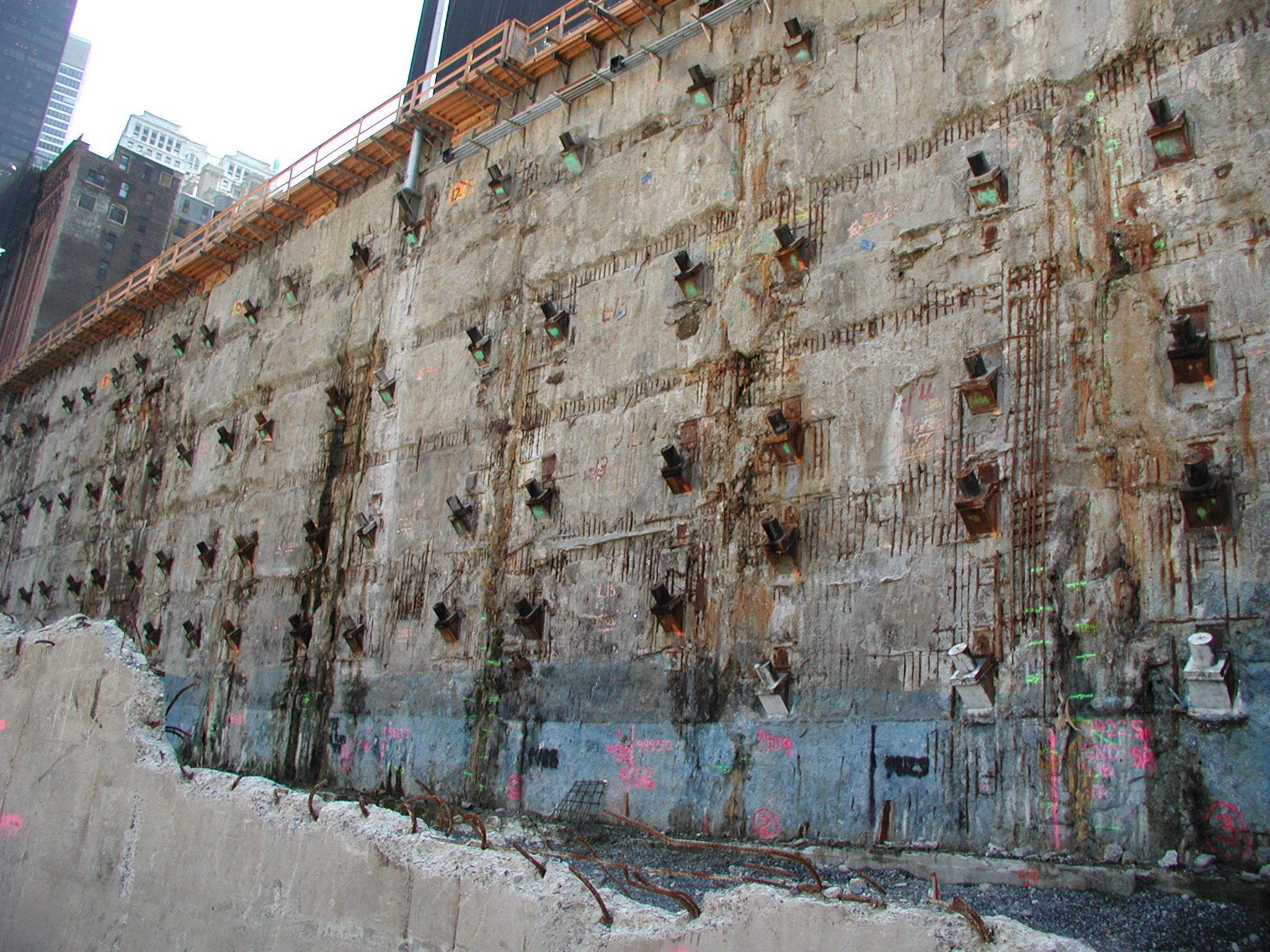 The World Trade Center's slurry wall, New York City. Photo taken by Eric Ascalon from within the "Ground Zero" crater on September 4, 2002, roughly a year after the Towers were destroyed on 9/11/01.